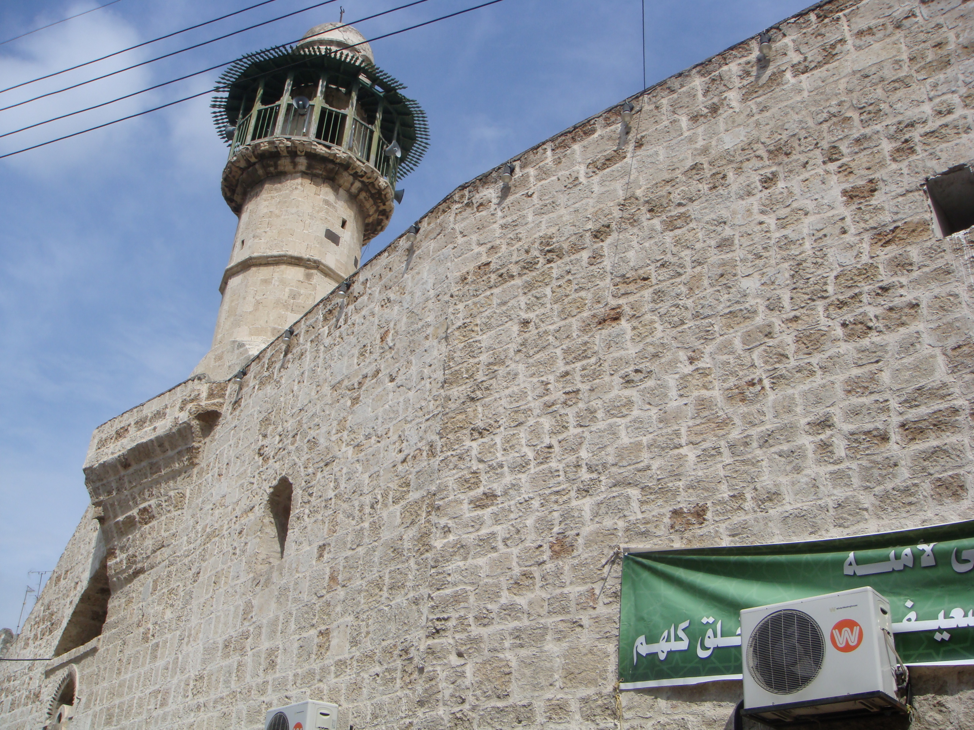 Bazaar Mosque in Lattakia